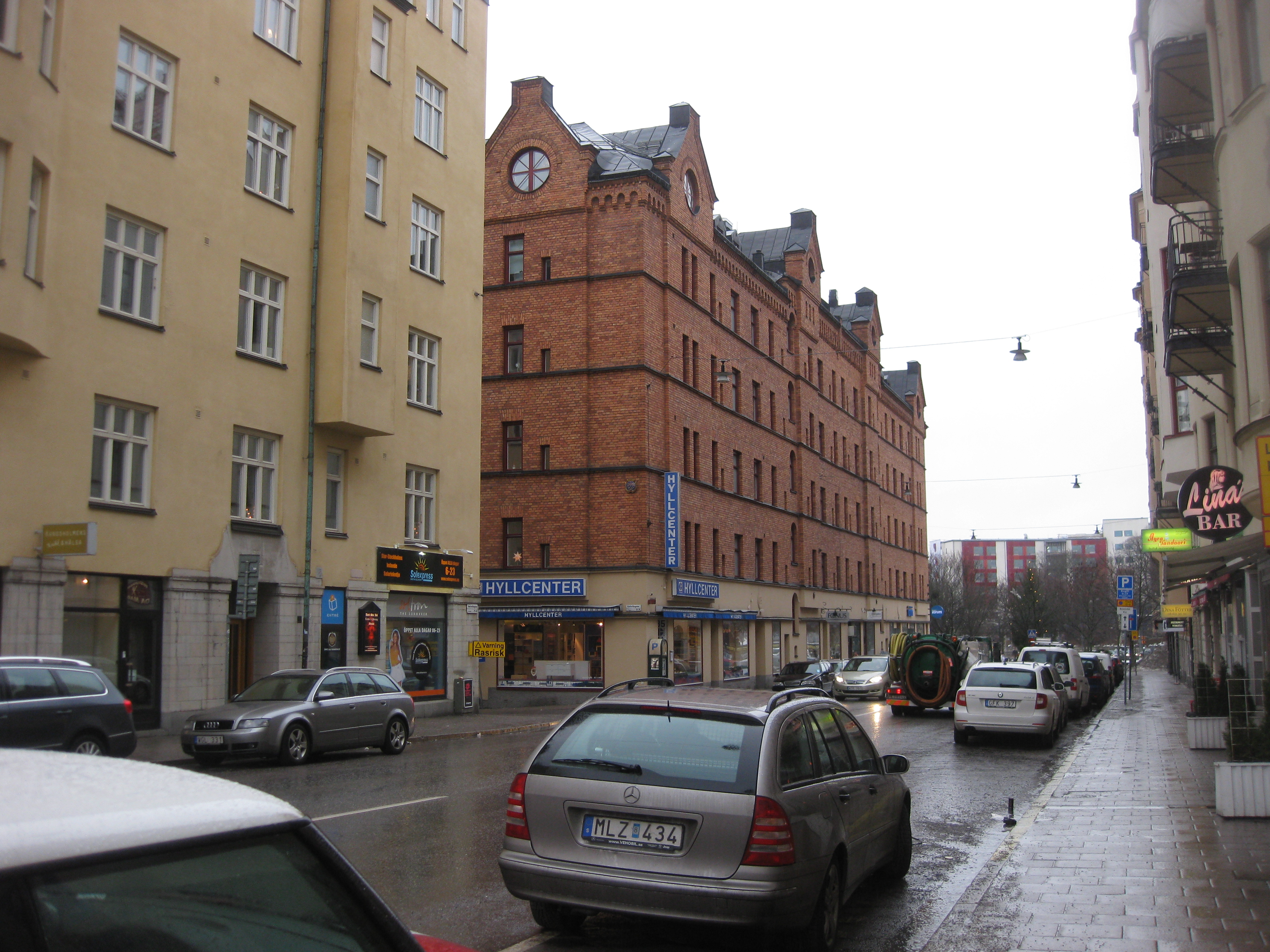 Tenement building for workers in Stockholm, Sweden. Built 1895-98 . The house was nicknamed "Tegeltraven" - The Brickstack